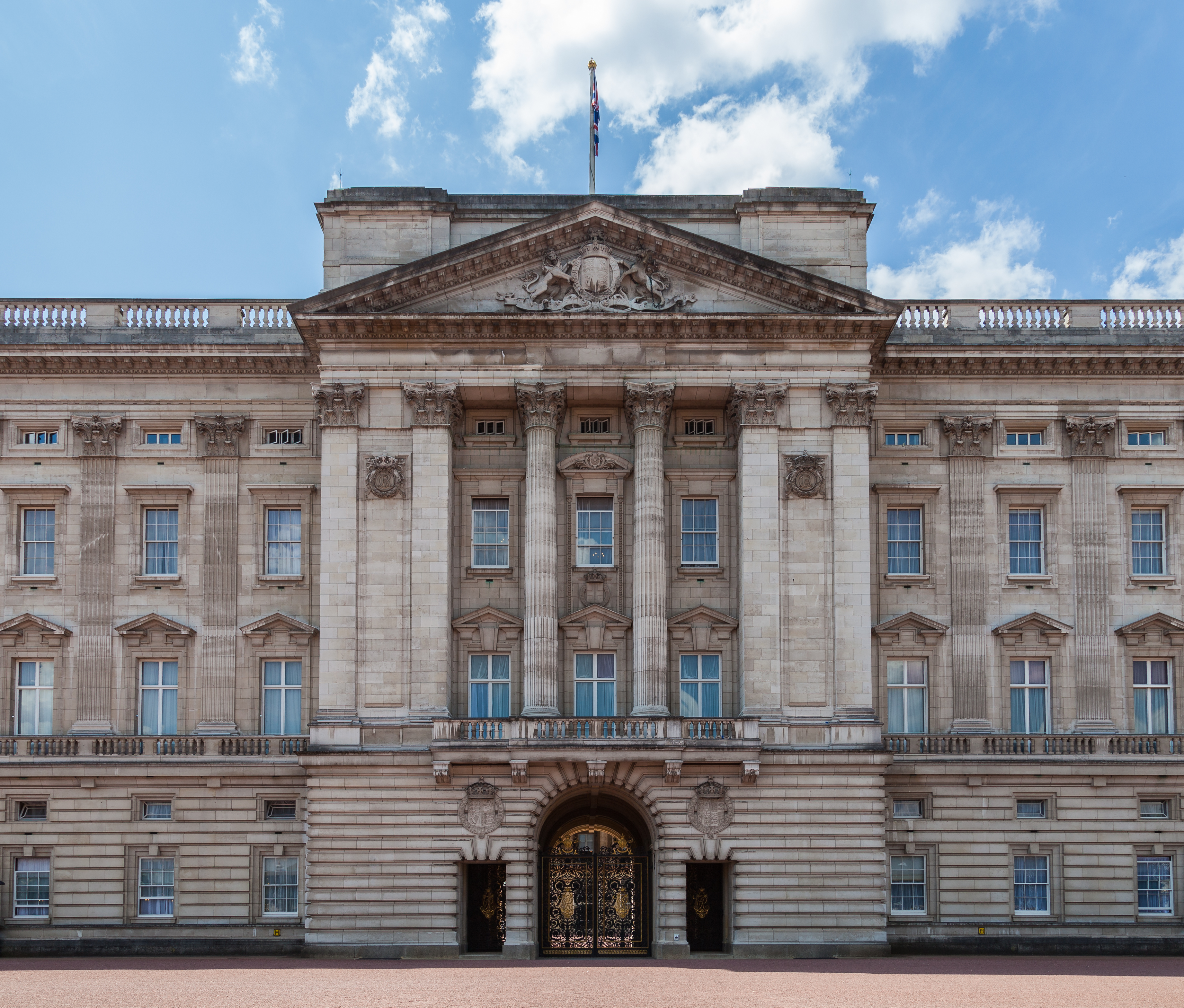 Buckingham Palace, London, England